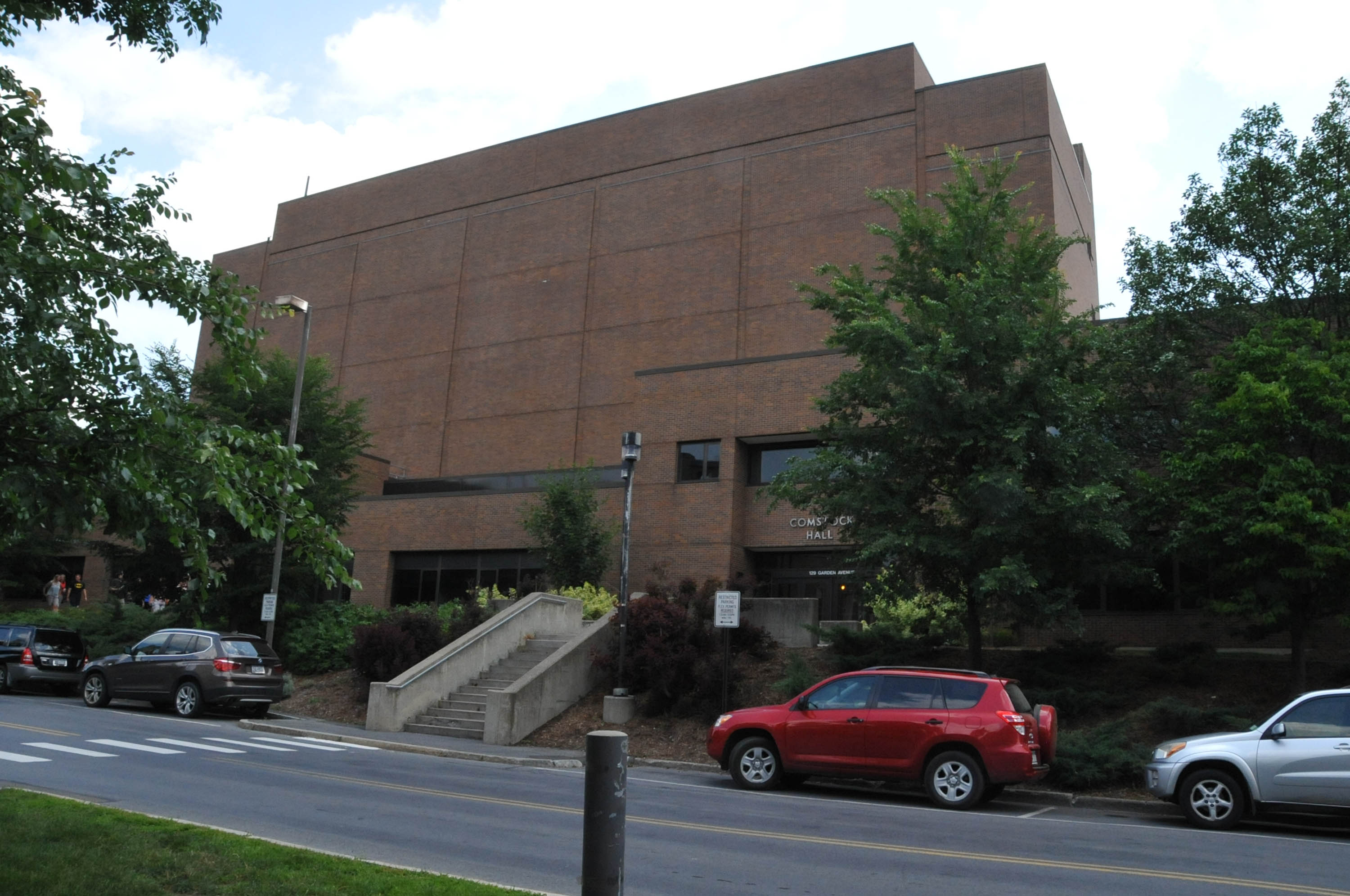 Located on Garden Avenue. The modern Comstock Hall contains biology and entomology departments.